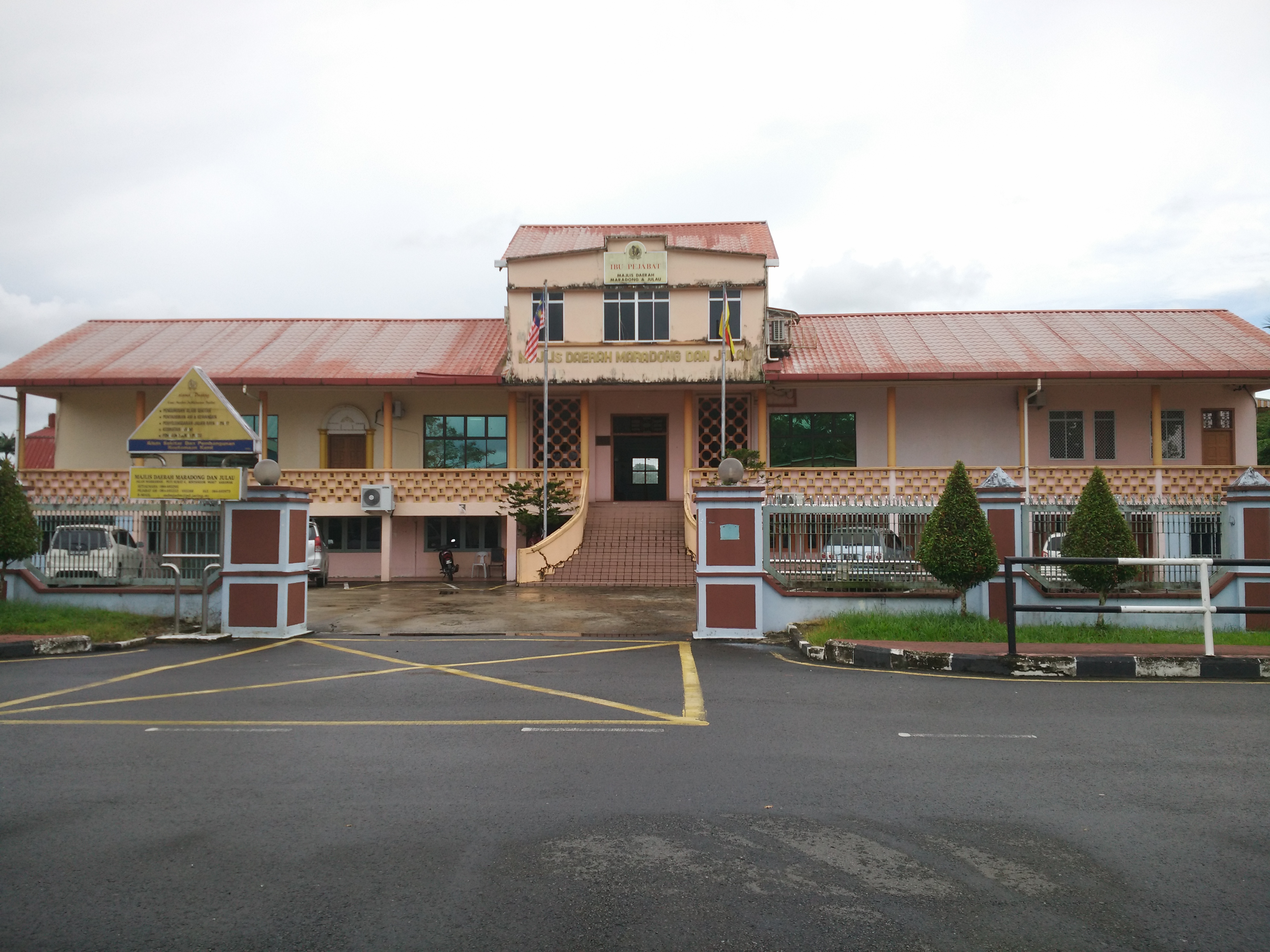 Meradong and Julau District Council head office, Bintangor, Sarawak